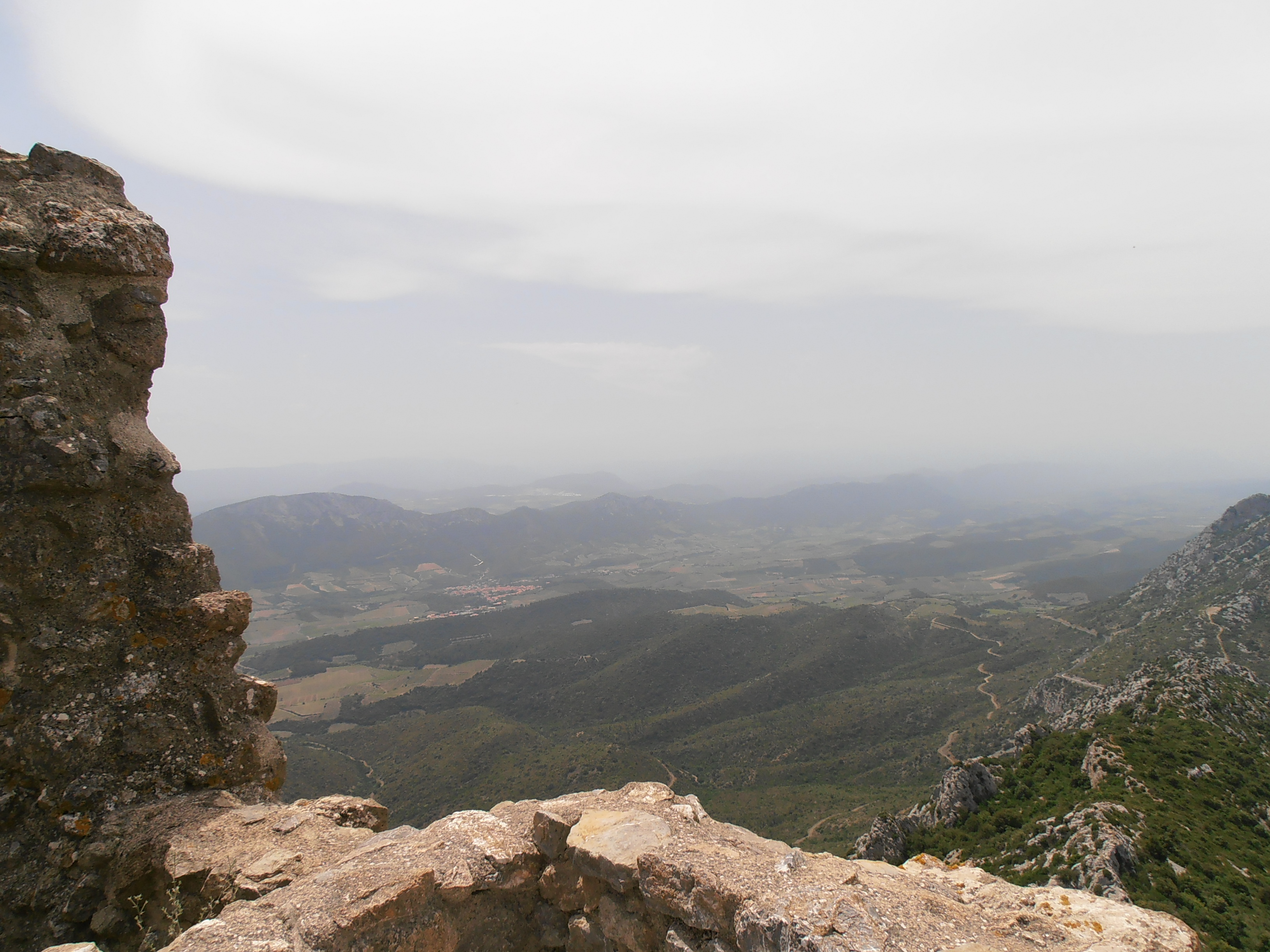 Castle of Quéribus